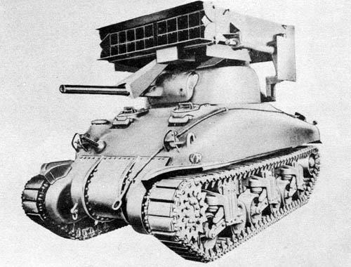 Illustration of T40/M17 Multiple Rocket Launcher from War Department Technical Manual, TM9-296, 7.2-Inch Multiple Rocket Launcher M17, issued 9 January 1945. Figure 1.